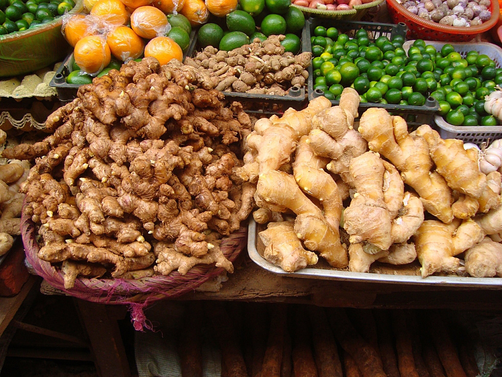 Two varieties of ginger as sold in Haikou, Hainan, China.